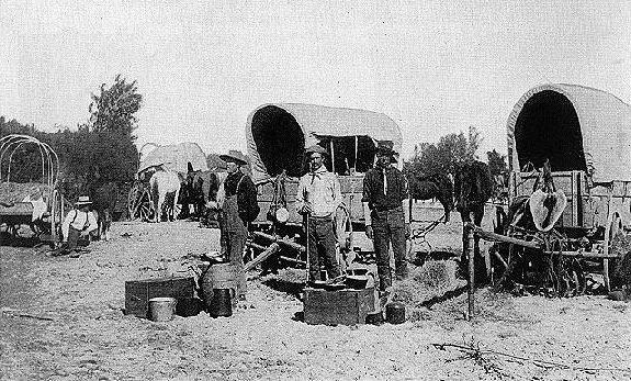 Waiting for the opening of the Cherokee Strip (or Outlet) at a camp near Arkansas City.